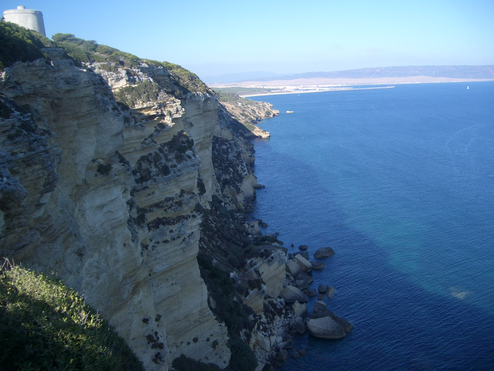 Distant view of Barbate and the coastline, taken near Torre del Tajor (visible to the left)